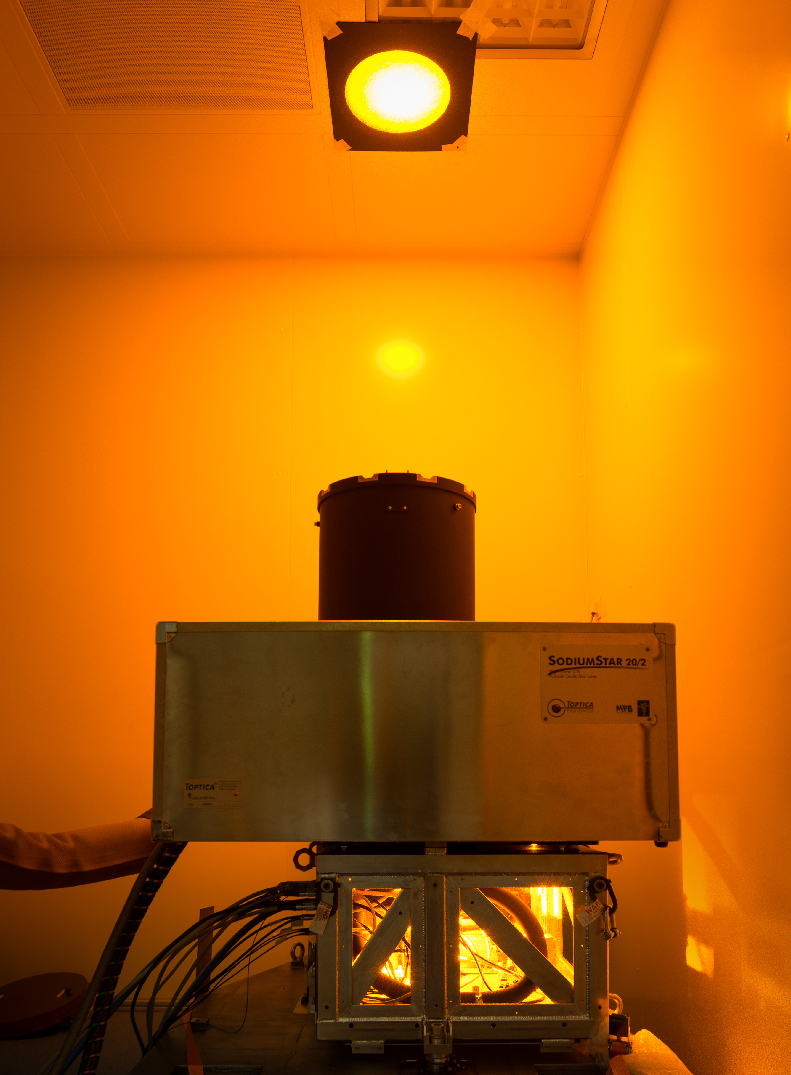 In March 2014 a new 22-watt laser has was accepted from the suppliers TOPTICA and MPB following nearly five years of sustained collaboration and effort. This laser system will form part of the Adaptive Optics Facility project at ESO’s Very Large Telescope (VLT). This laser, and four further similar units (including one spare) that will be delivered later, constitute key elements of the new facility and this acceptance marks a major step forward for the project.